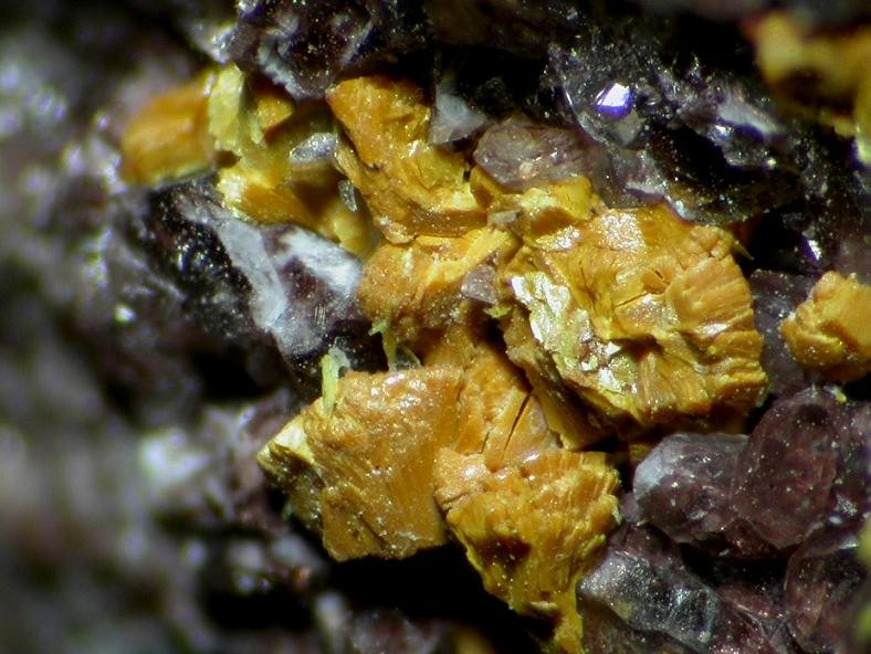 Carnotite Locality: Mashamba West Mine, Kolwezi, Western area, Katanga Copper Crescent, Katanga (Shaba), Democratic Republic of Congo (Zaïre) (Locality at ) Field of view 3 mm. Specimen and photo Leon Hupperichs.